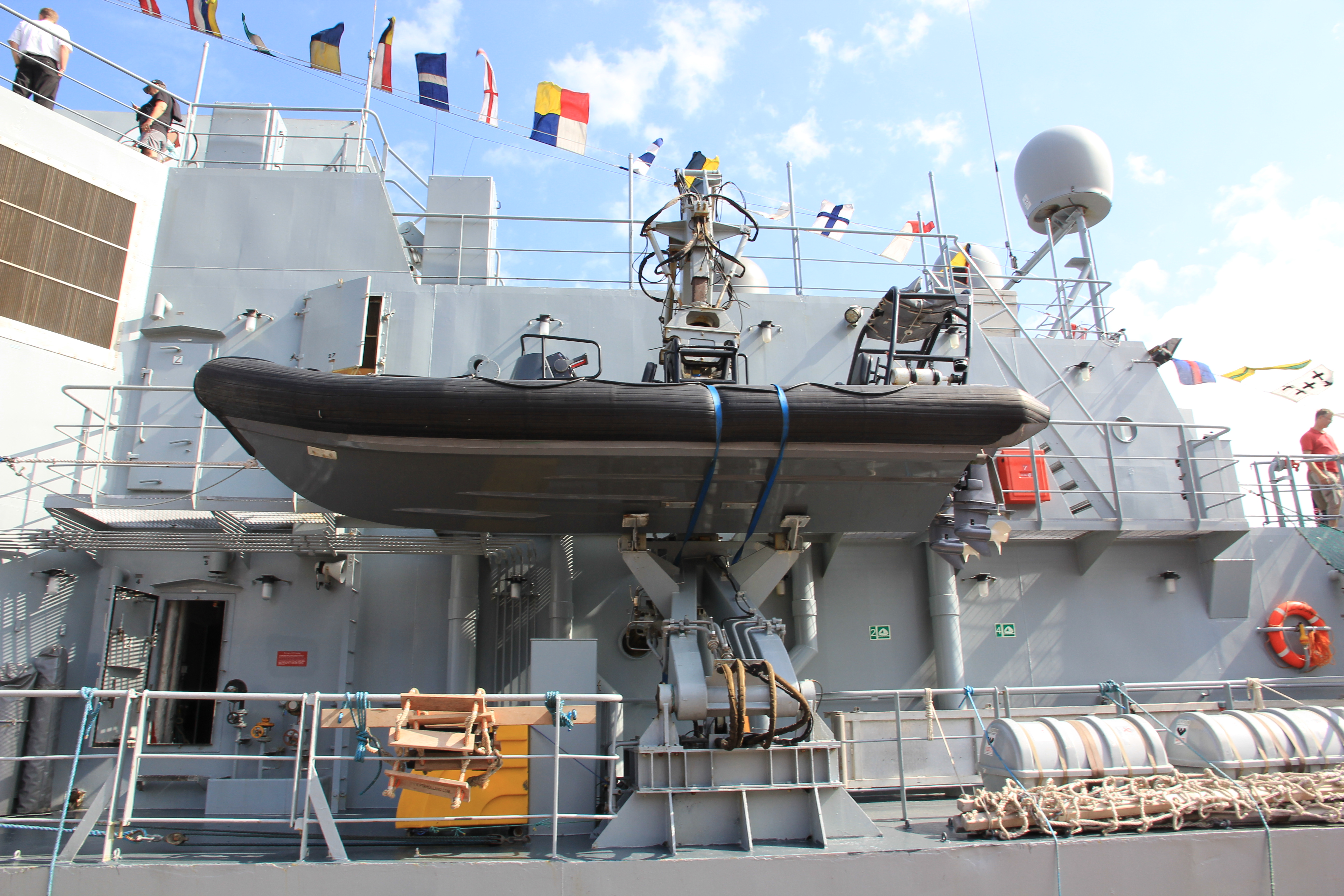 Port side boat of Irish offshore patrol ship LÉ Róisín (P51) photographed in Helsinki.